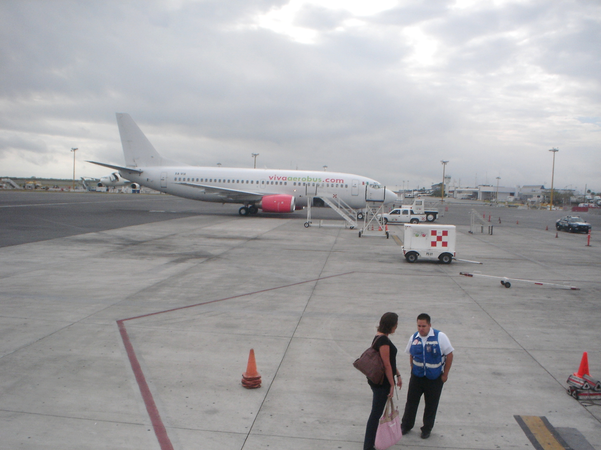 VivaAerobus plane at Monterrey's Terminal C.